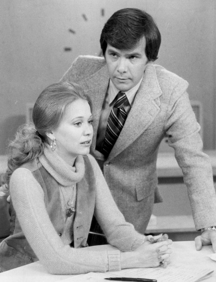 Jane Pauley and Tom Brokaw on the Today show set.